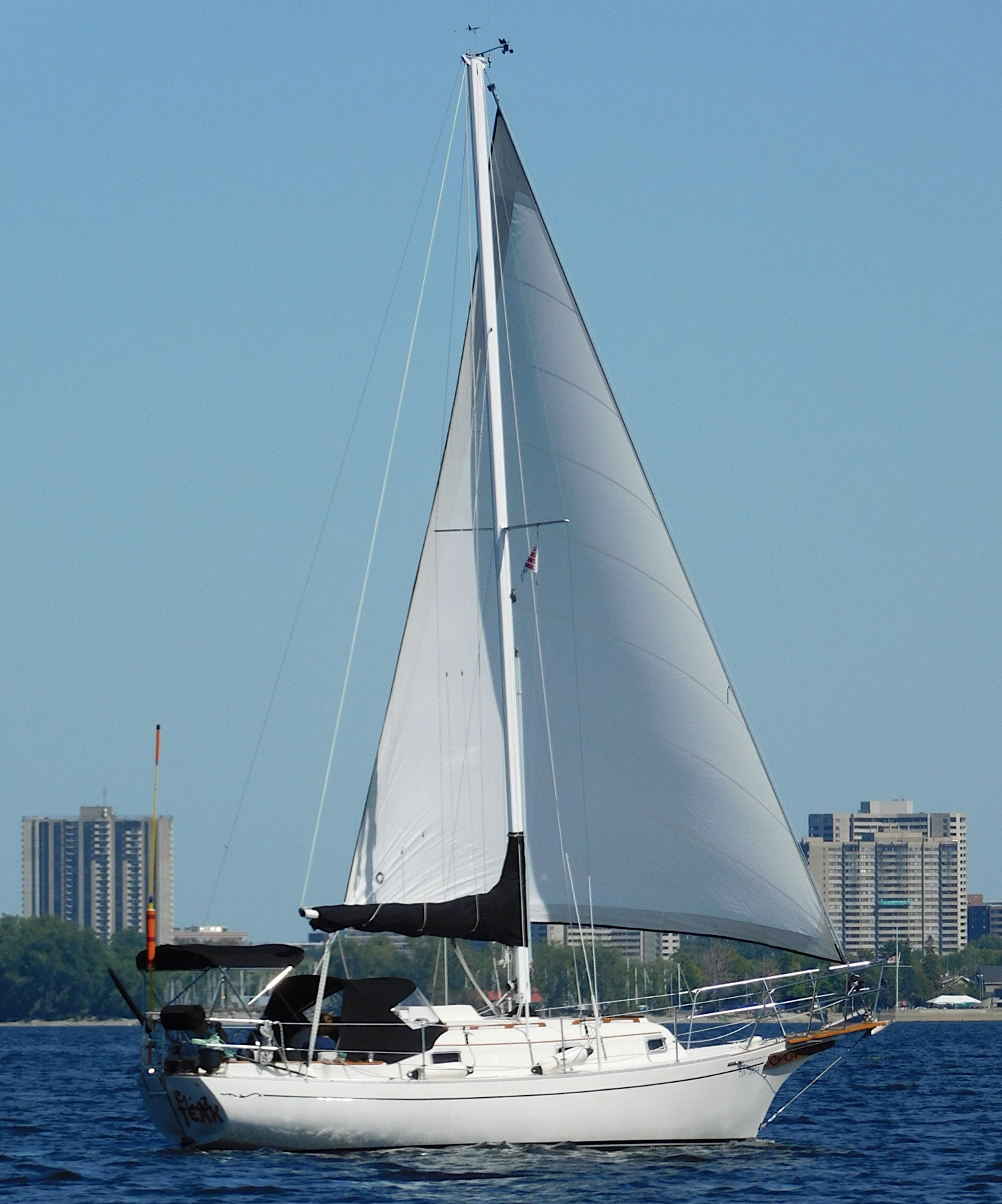 A Bayfield 32 sailboat named Mist Teak.